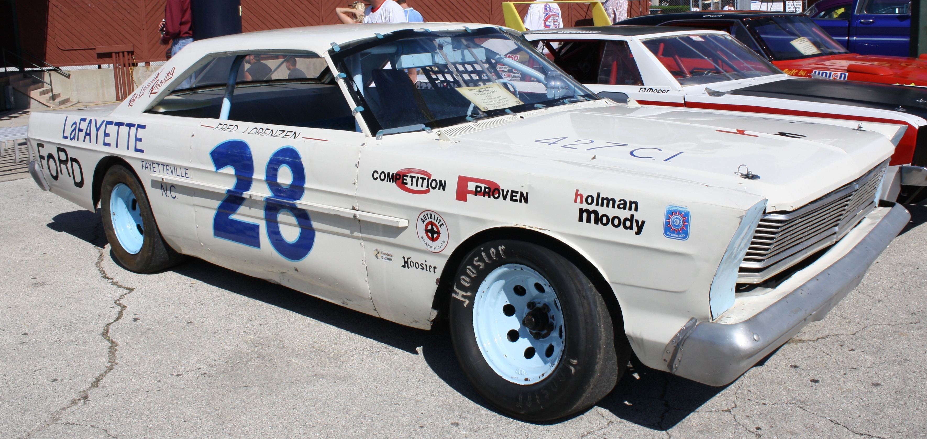 A replica or possibly the original 1965 NASCAR Ford Galaxie driven by Fred Lorenzen and owned by Holman Moody.